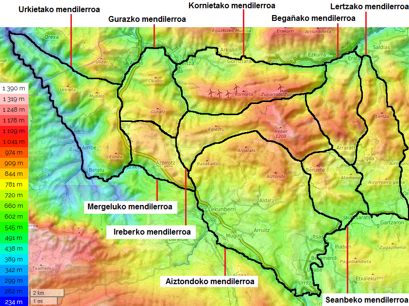 Topographic map showing the Seanbe, Ireber, Lertza, Begaña, Aiztondo, Mergelu, Urkieta, Guratz and Kornieta Ranges.